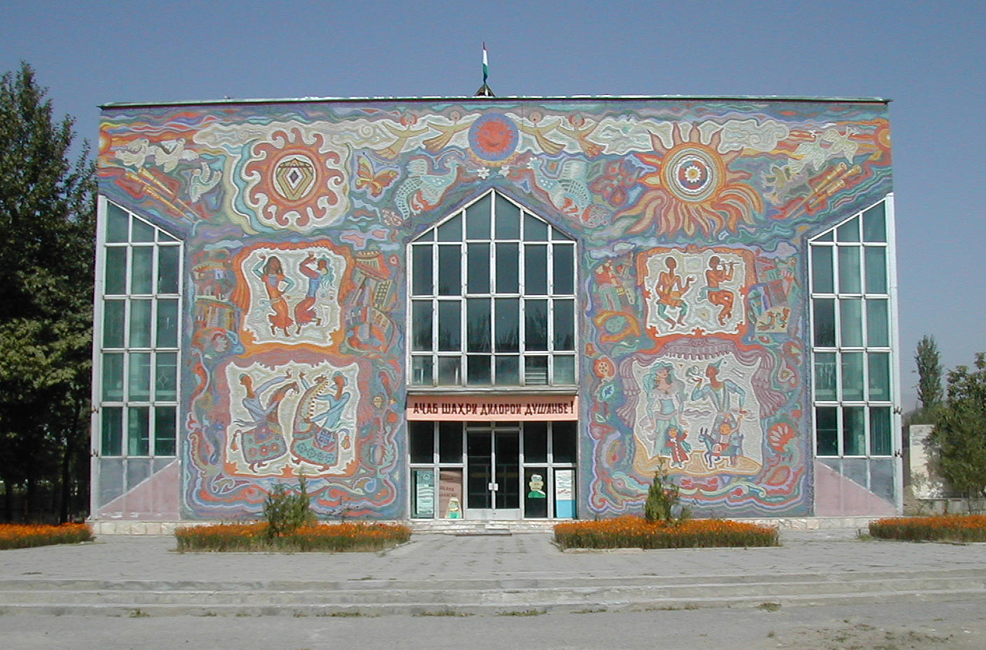 Theatre in Dushanbe, Tajikistan Тоҷикӣ: Театри лӯхтак дар Душанбе, Тоҷикистон